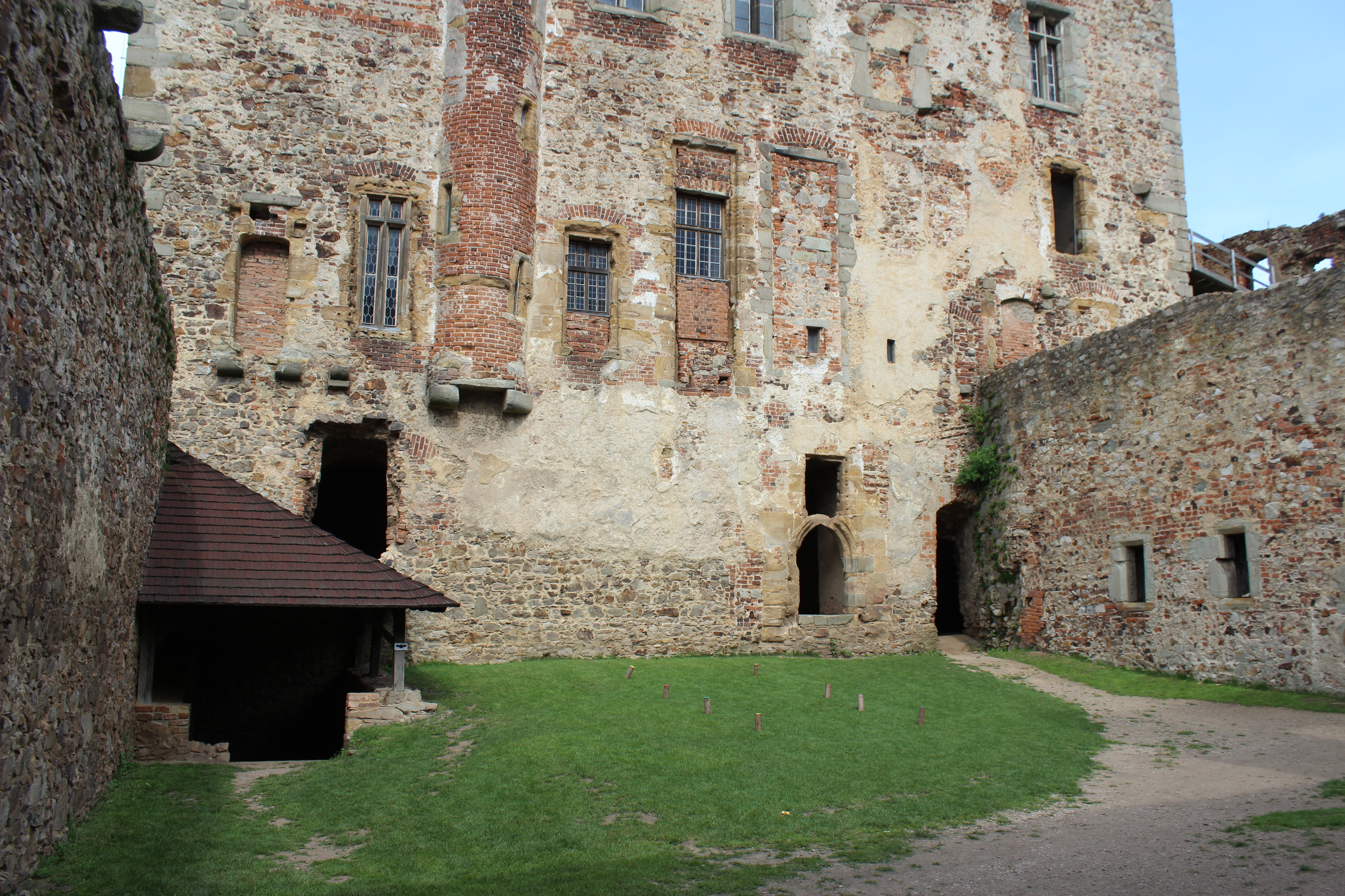 Castle Točník